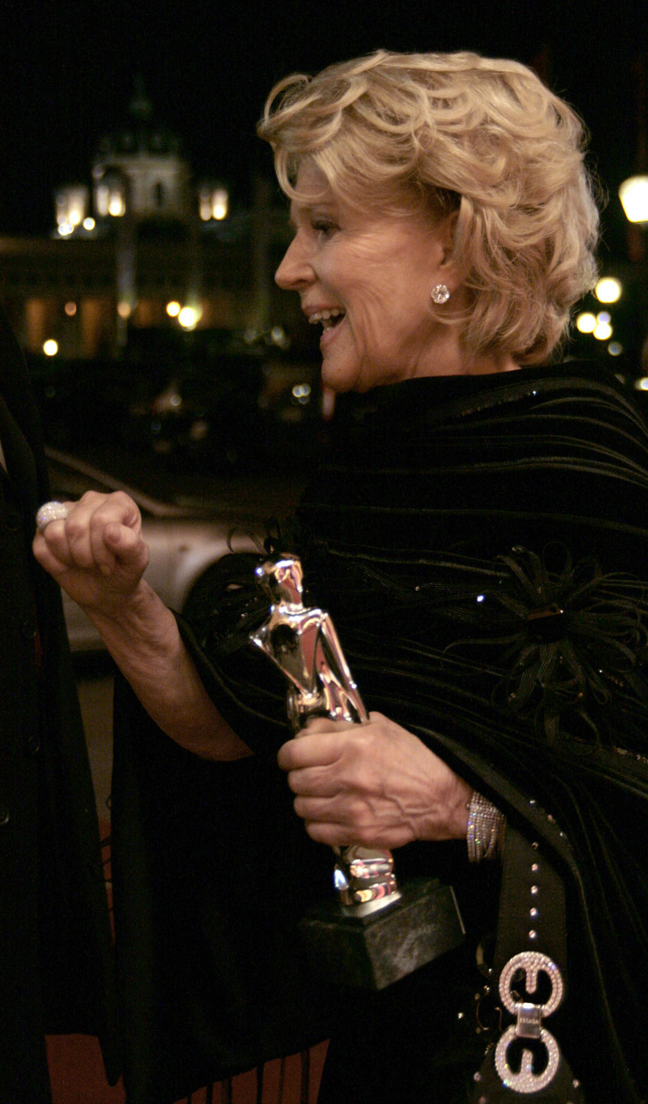 Actress Christiane Hörbiger at the Romy TV awards (Hofburg Imperial Palace in Vienna)